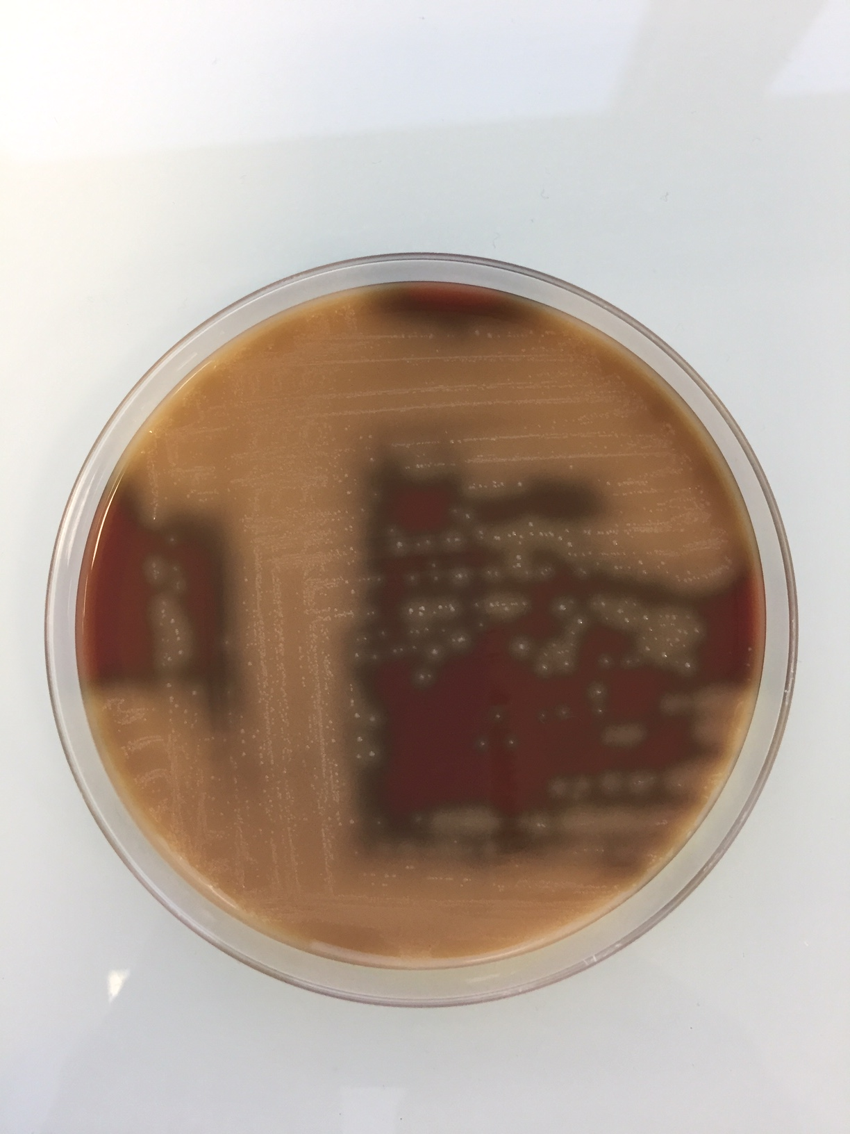 bacteria Streptococcus pneumoniae uber Chocolate polyvitex